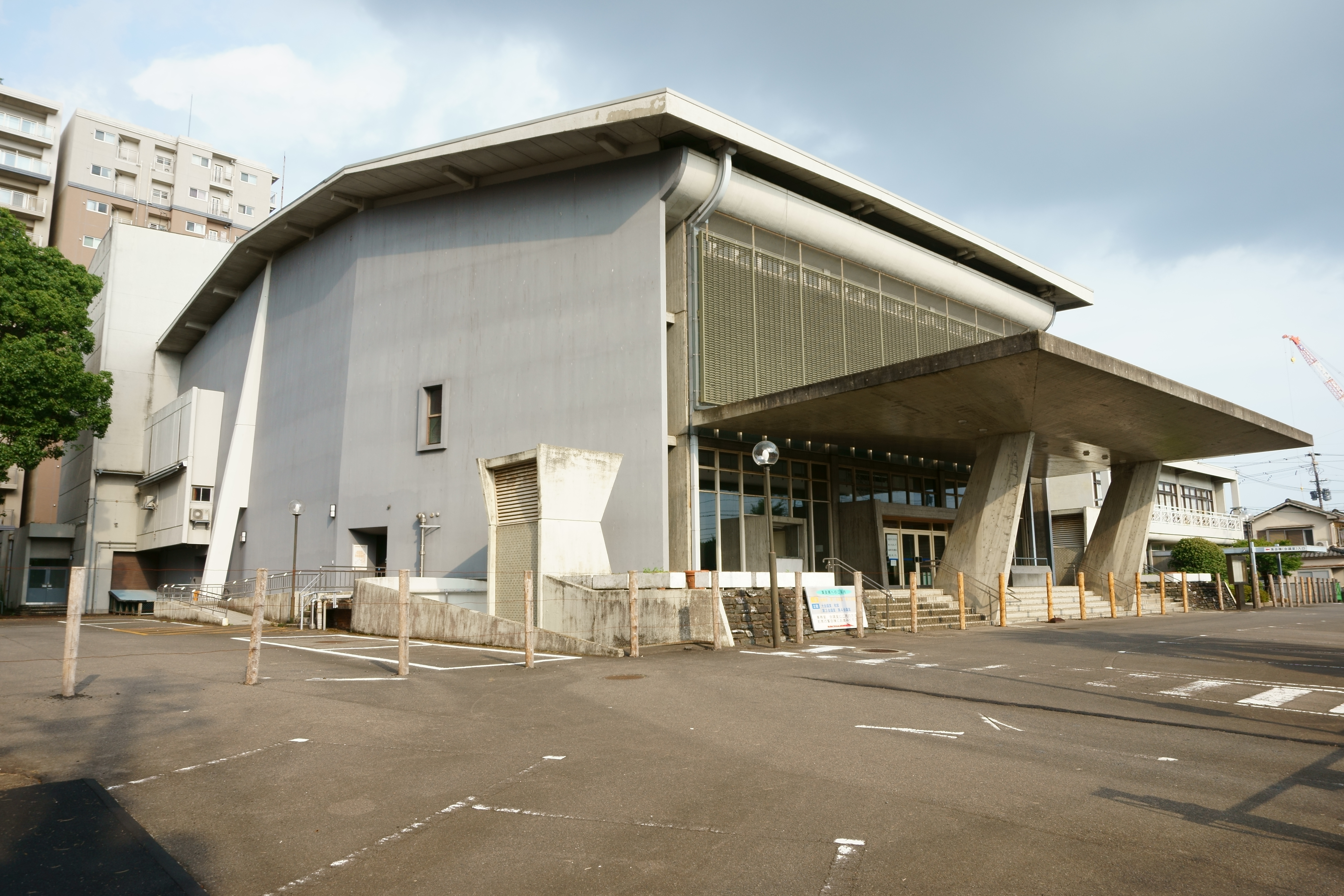 Saga Civic Hall, a concert hall and convention halls in Mizugae, Saga city, Saga prefecture, Japan. It built in 1996, and disestablishment in 2016.